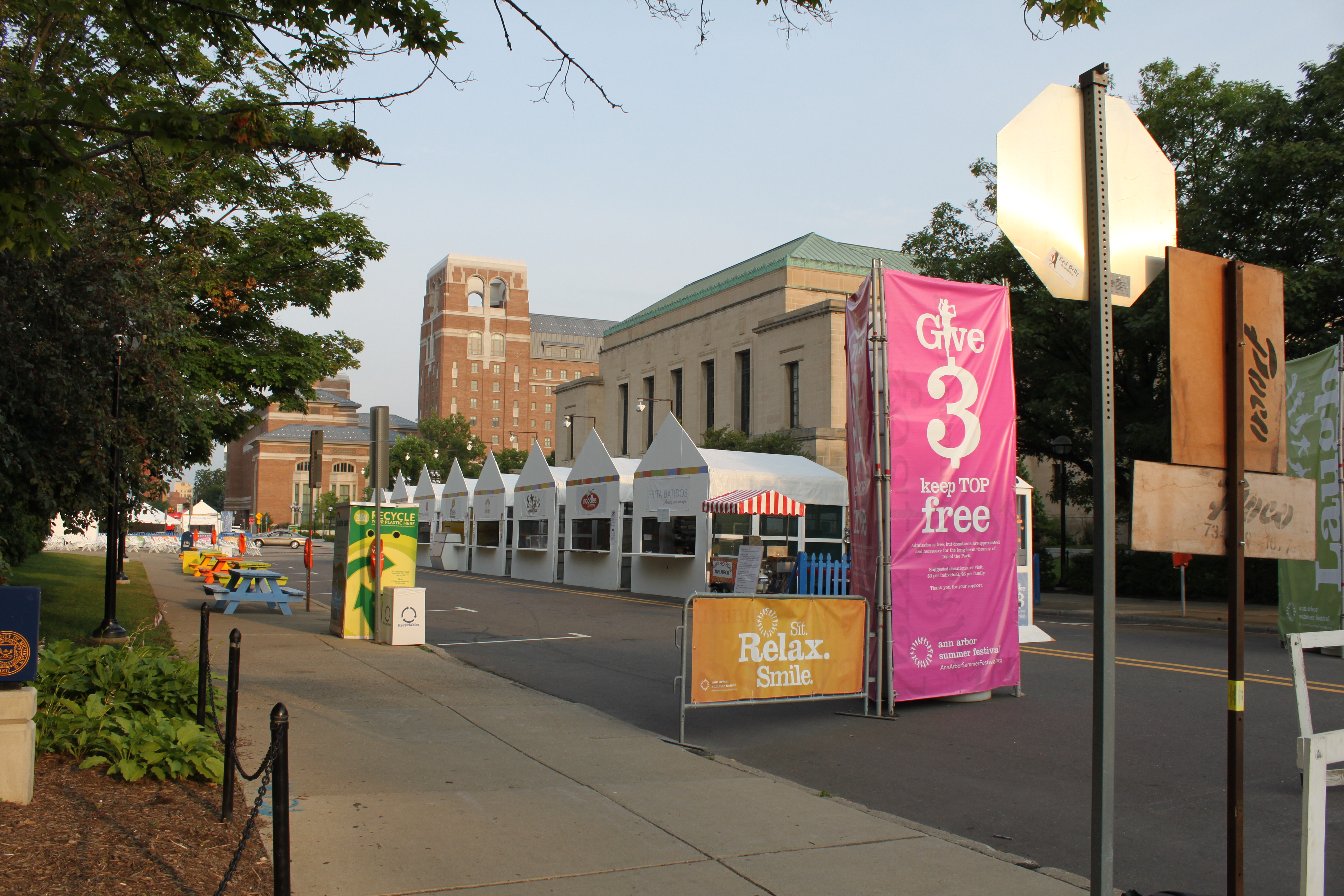 Food vendor booths a the 2011 Ann Arbor Summer Festival, on East Washington Street in front of the Rackham Graduate School Building on the University of Michigan campus.